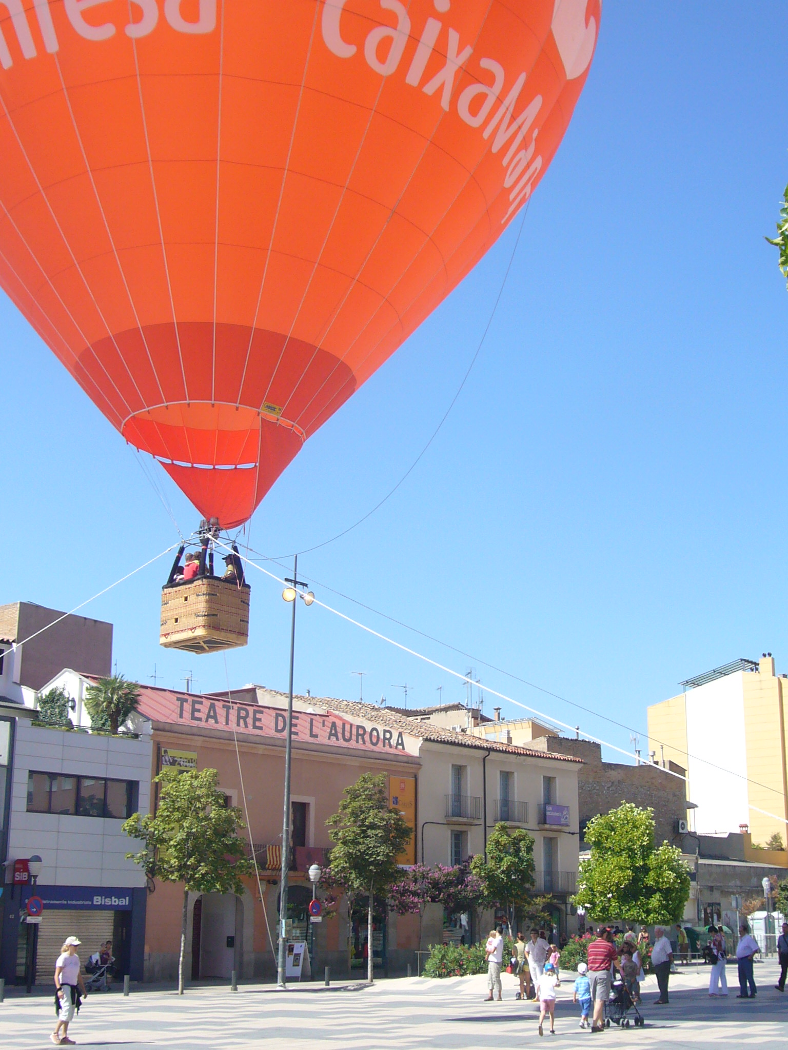 Igualada, globus captiu (de Caixa Manresa) a la plaça de cal font, festa major 2008